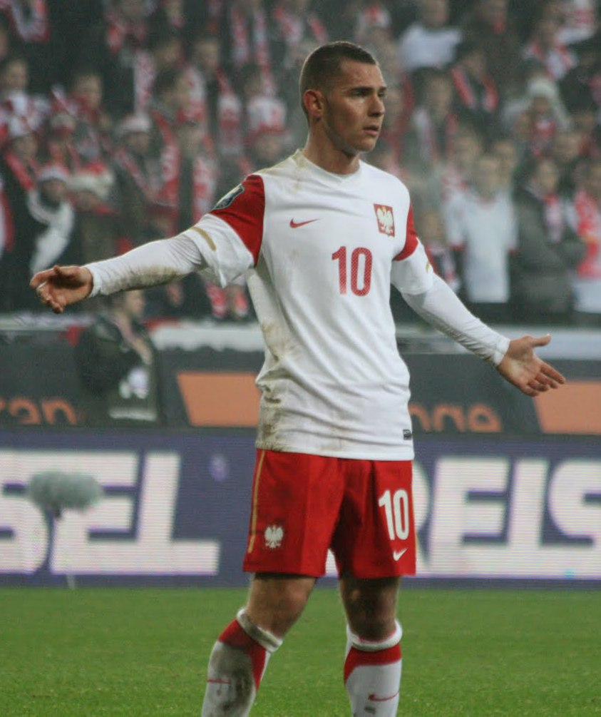 Ludovic Obraniak, polish football player.